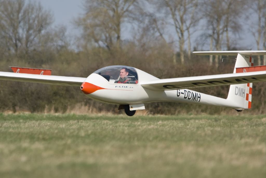 Oxford Gliding club Astir DMH